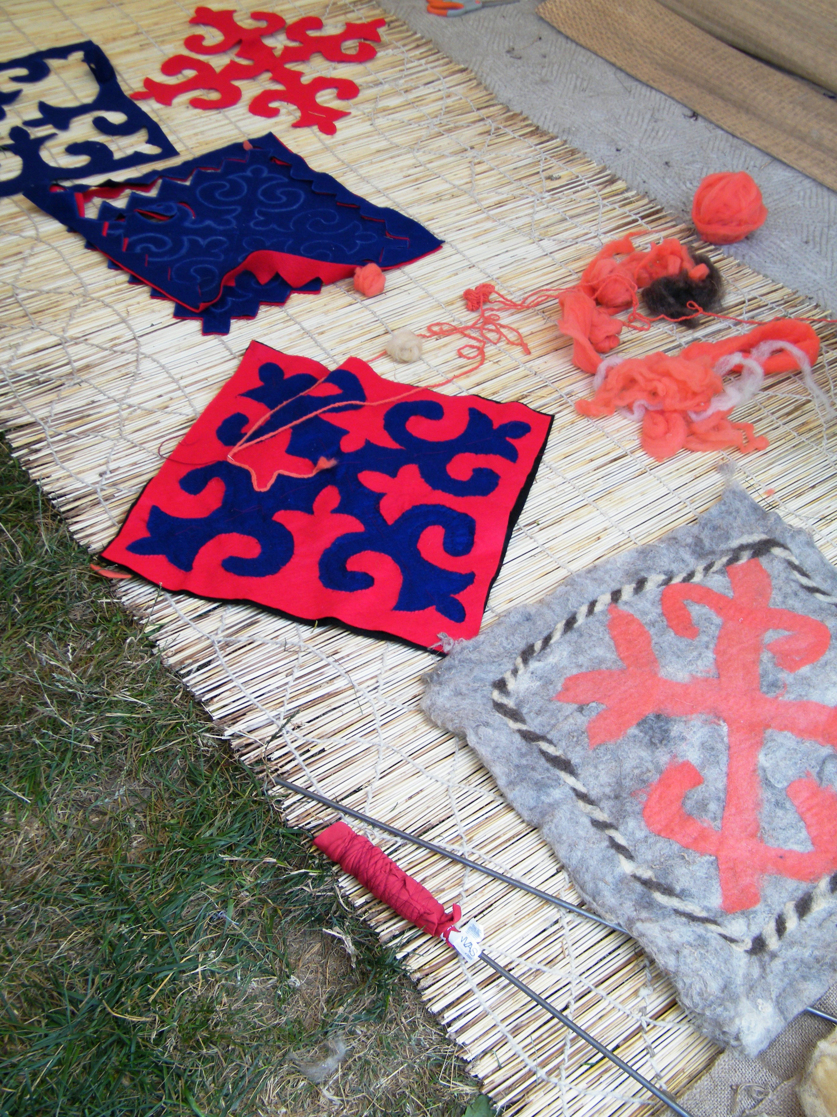 Kyrgyz Republic felt rugs at the 2011 Smithsonian Folklife